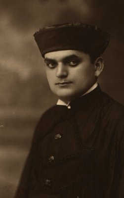 Luís da Câmara Cascudo in his graduation at the University of Law of Recife, Brazil.